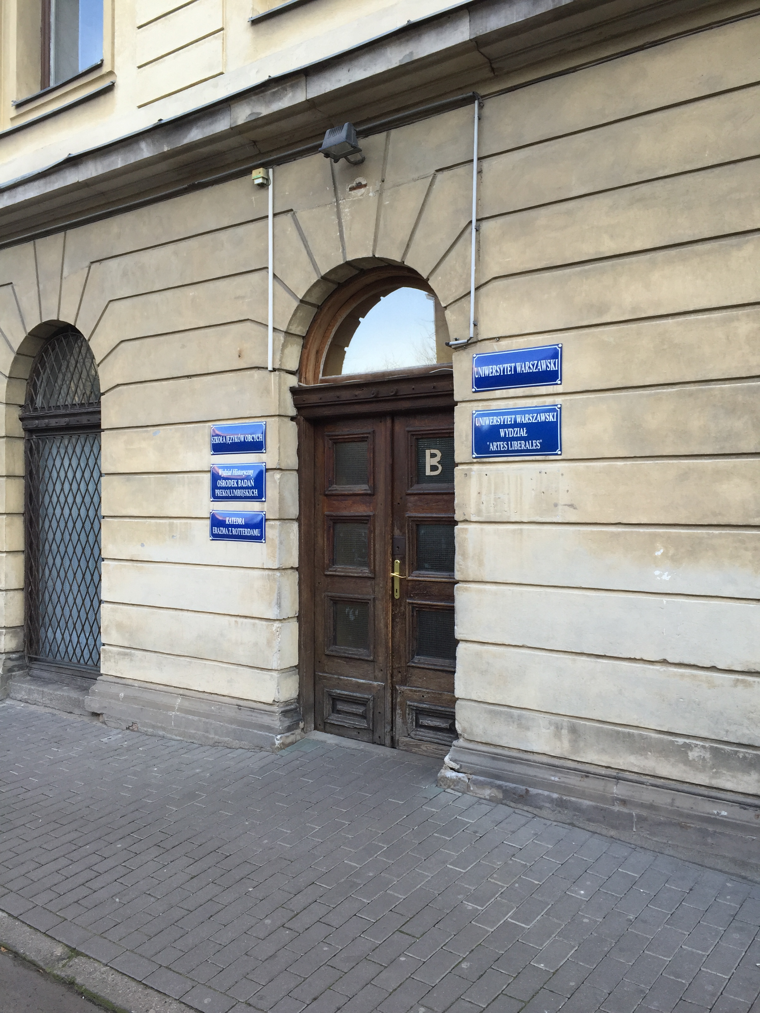 Zamoyski Palace in Warsaw, entrance B